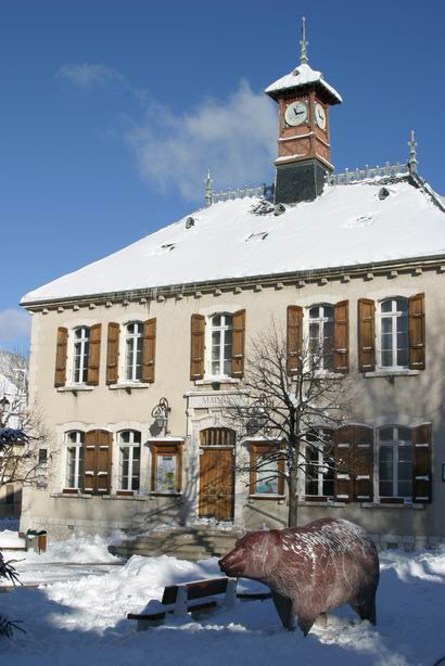 Patrimony House of Villard de Lans